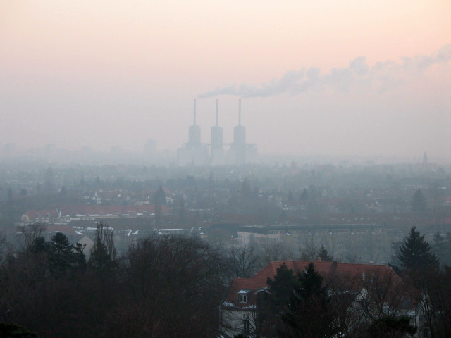 Berlin-Lichterfelde power plant in mist; seen from north